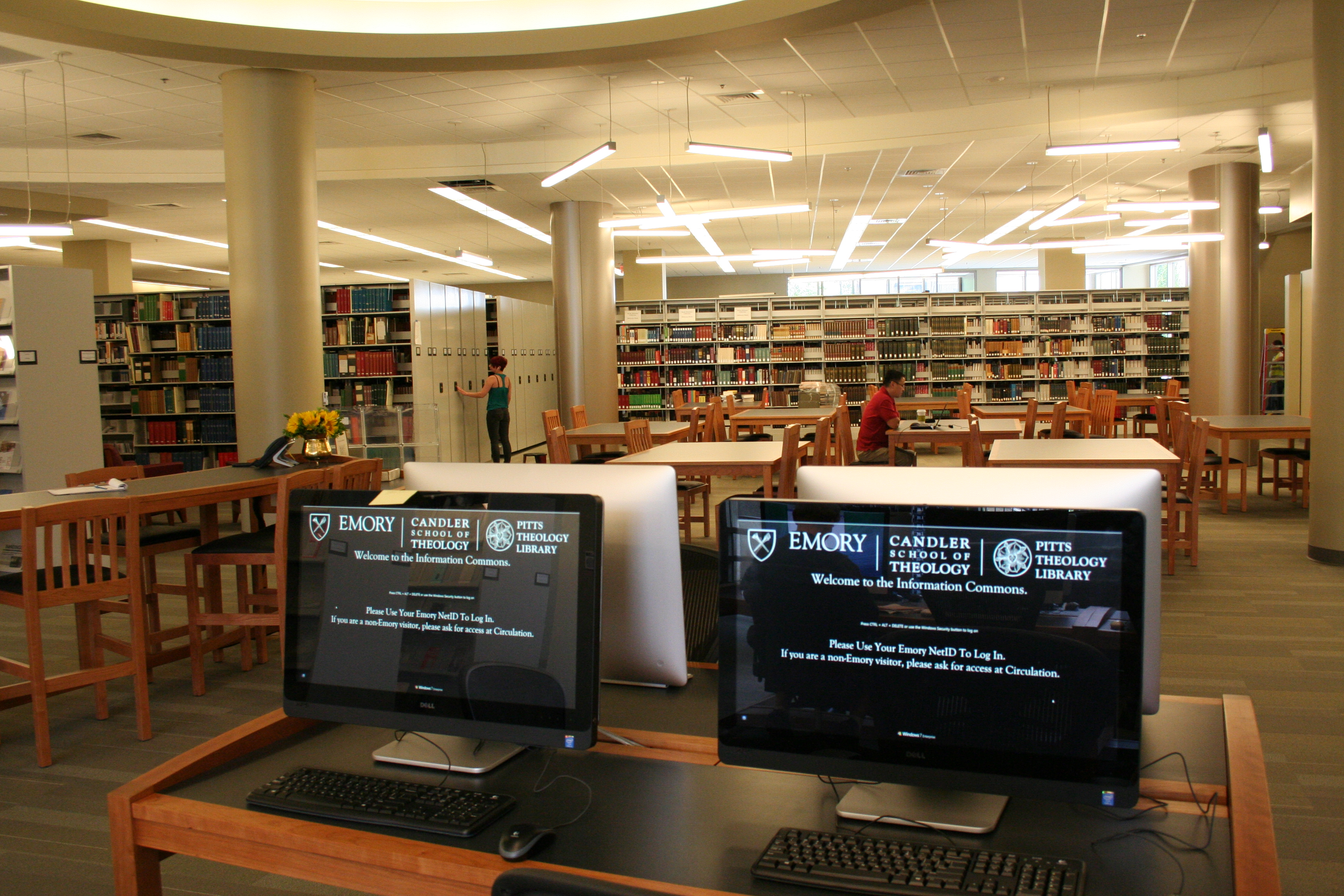 The main floor of Pitts Theology Library at Candler School of Theology, with some of the computers shown